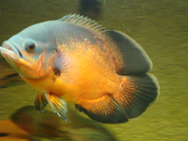 Red Oscar